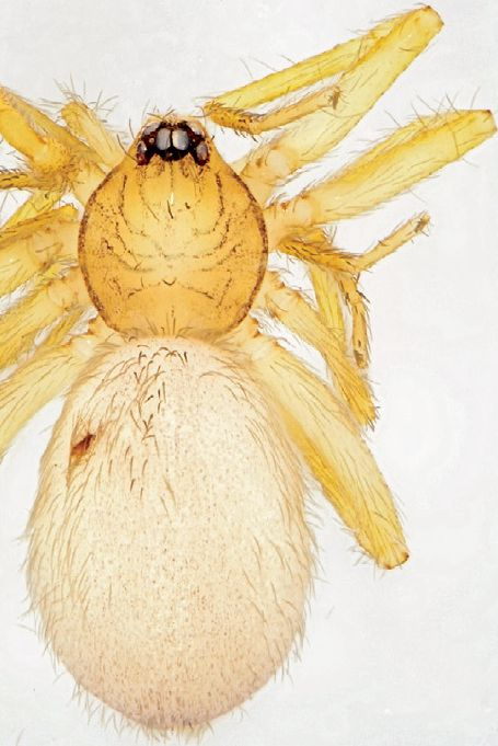 Tapinesthis inermis, dorsal view of female.